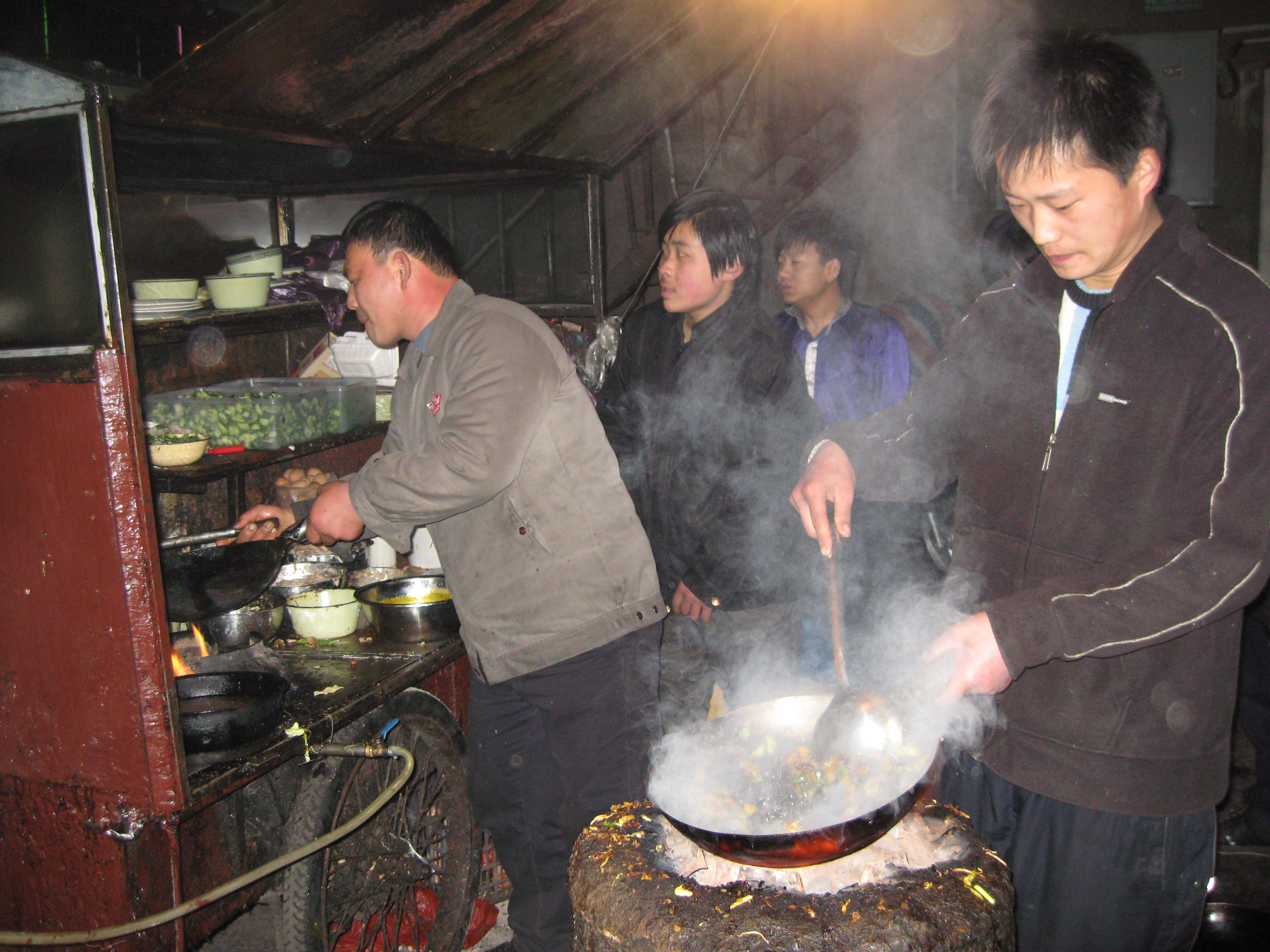 Natural gas powered food stall is up for the task of making just about anything you could want. Some really great fried noodles and very spicy kung pao chicken.